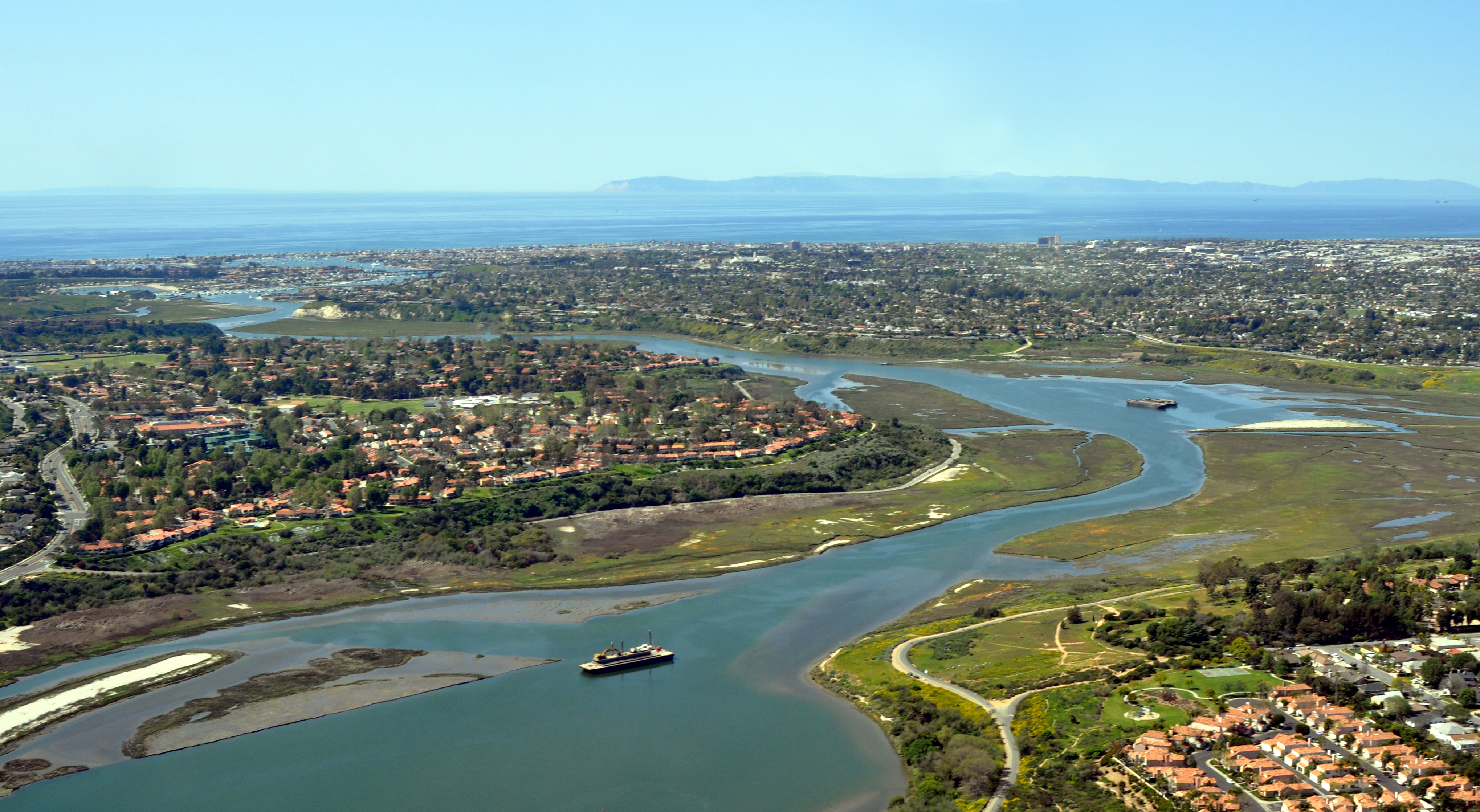 The Back Bay in Newport Beach CA "Aerial photo by D Ramey Logan". If used outside of Wikipedia please credit Photographer: D Ramey Logan